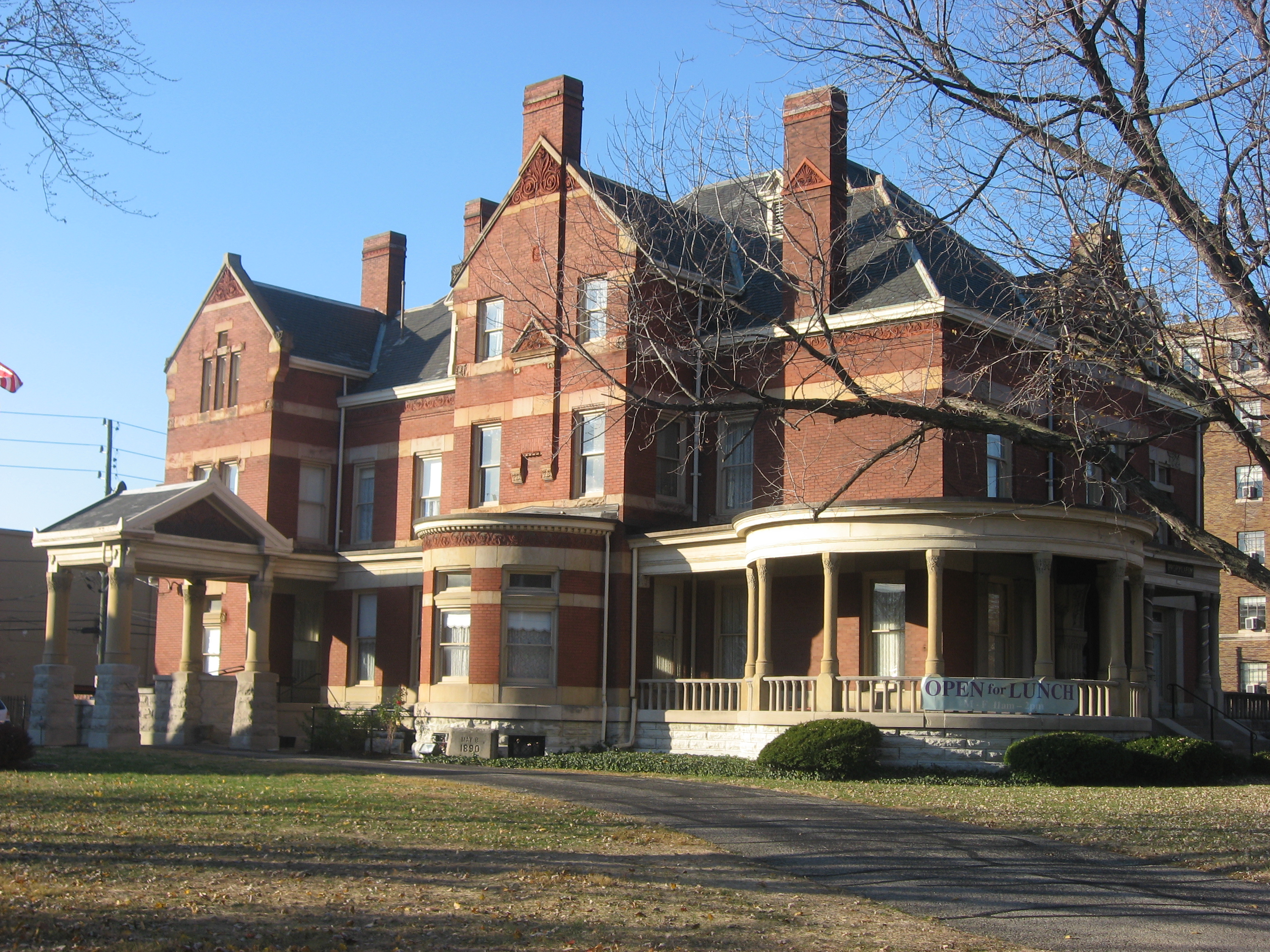 Front of The Propylaeum (also known as the John W. Schmidt House), located at 1410 N. Delaware Street in Indianapolis, Indiana, United States. Built in 1890, it is listed on the National Register of Historic Places, and it is part of a Register-listed historic district, the Old Northside Historic District. Owner's website.